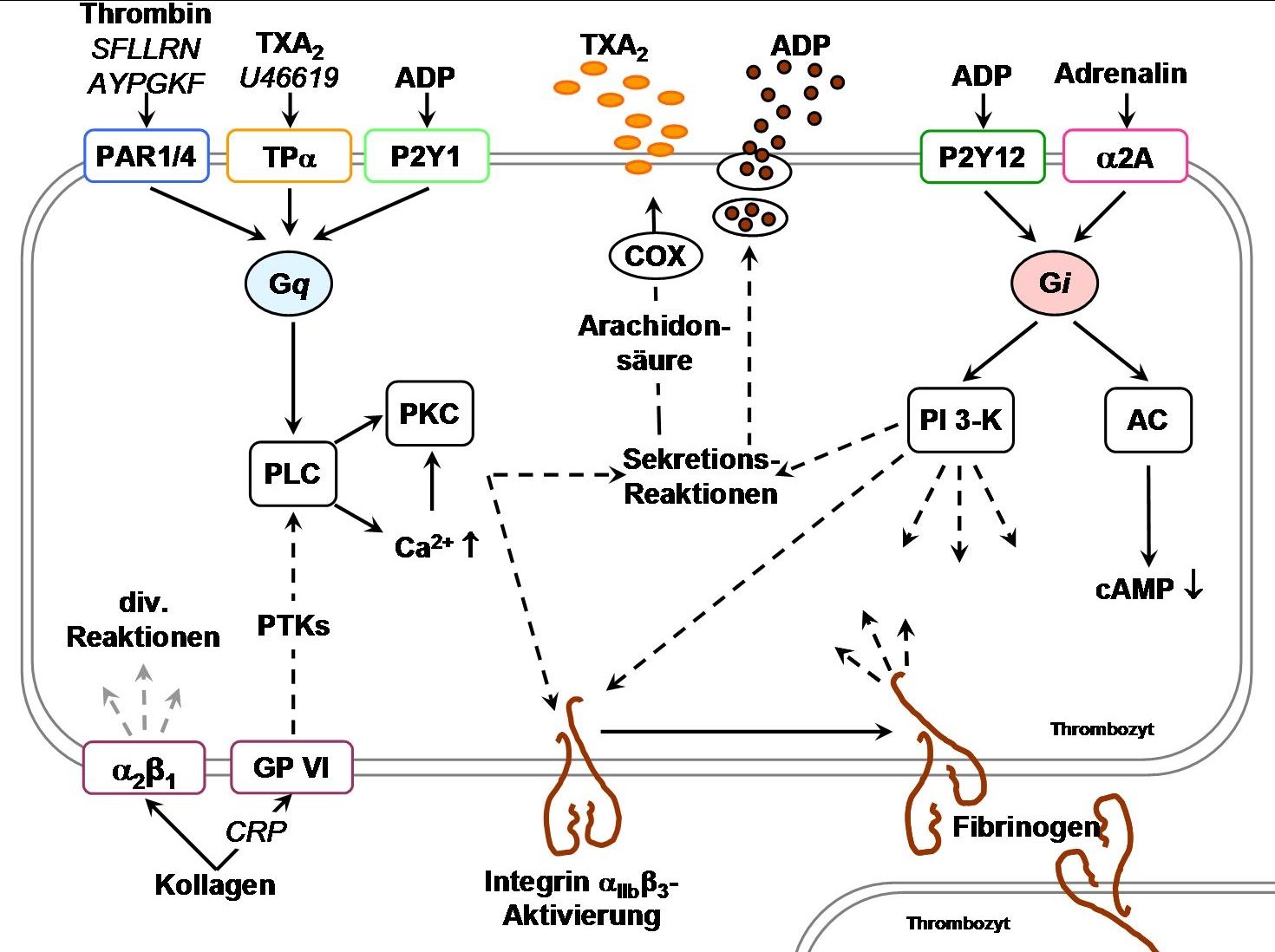 Intracellular mechanisms in platelet aggregation